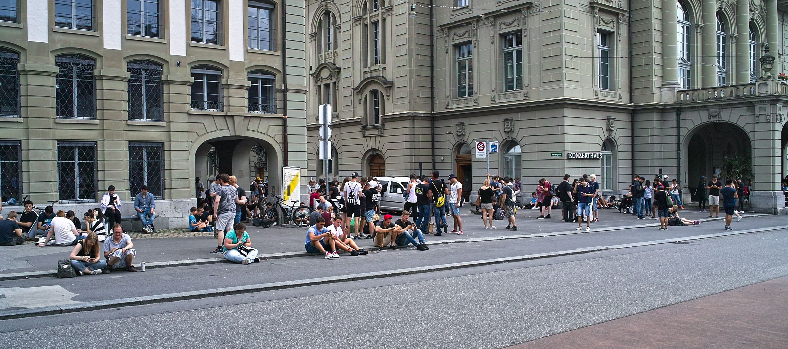 A pokéstop (Pokémon GO) in Bern near the Kulturcasino.